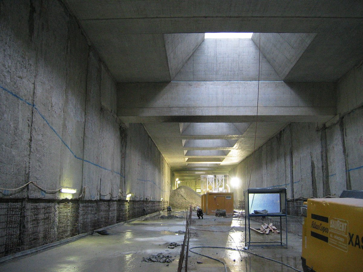 U-Bahn München, future station Oberwiesenfeld (in service from 2007)